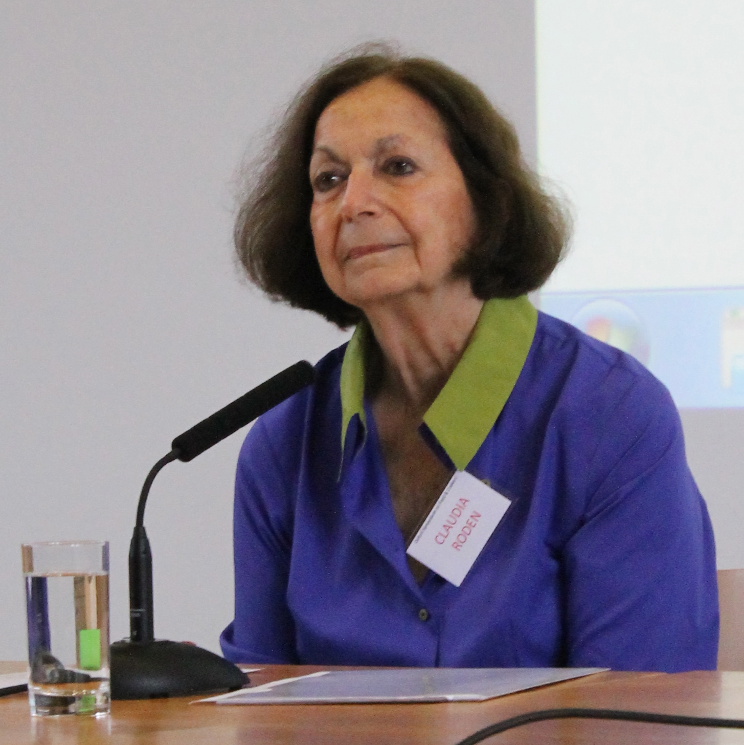 Cookbook writer Claudia Roden at the Oxford Symposium on Food and Cookery, 2012.